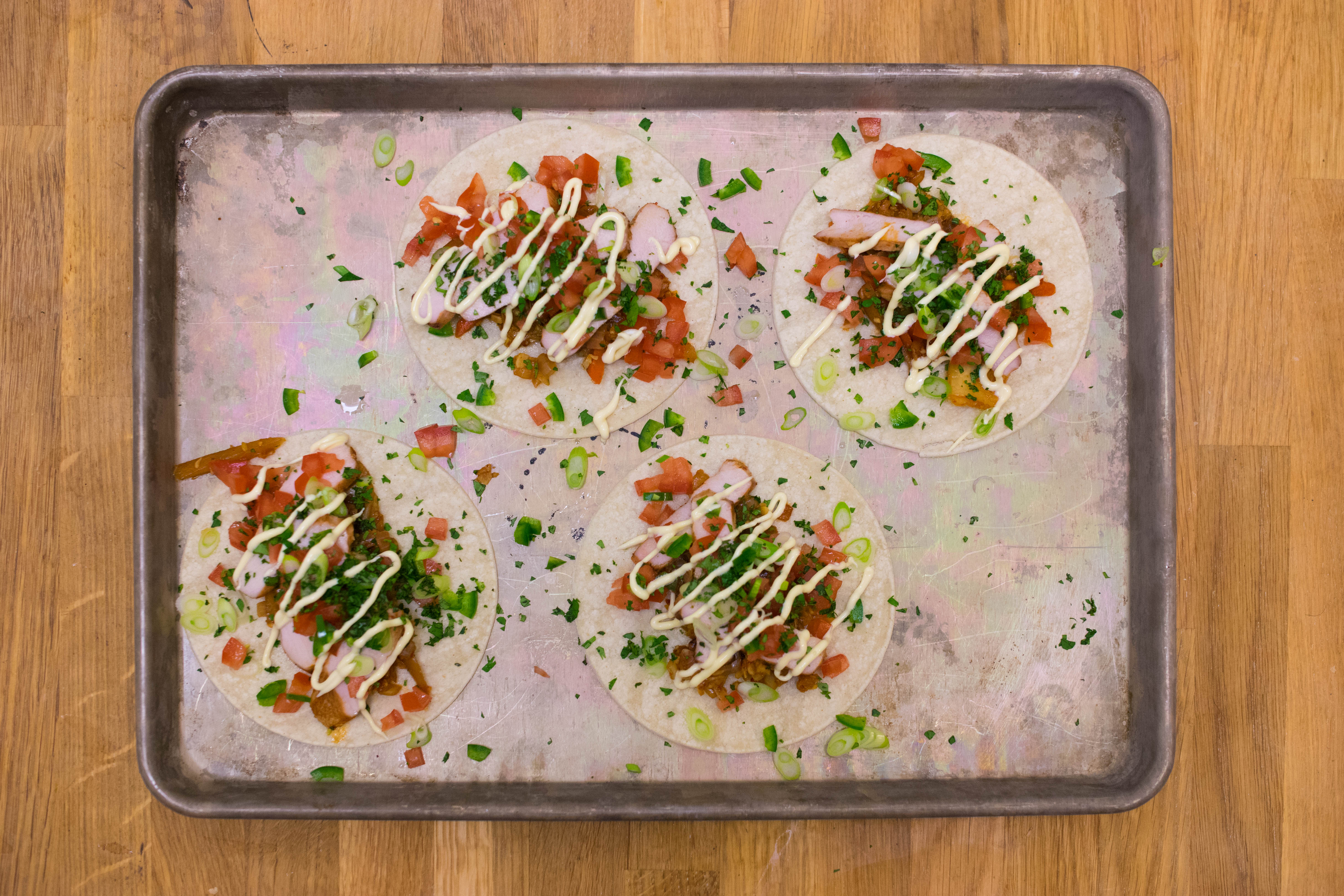 Kimchi tacos